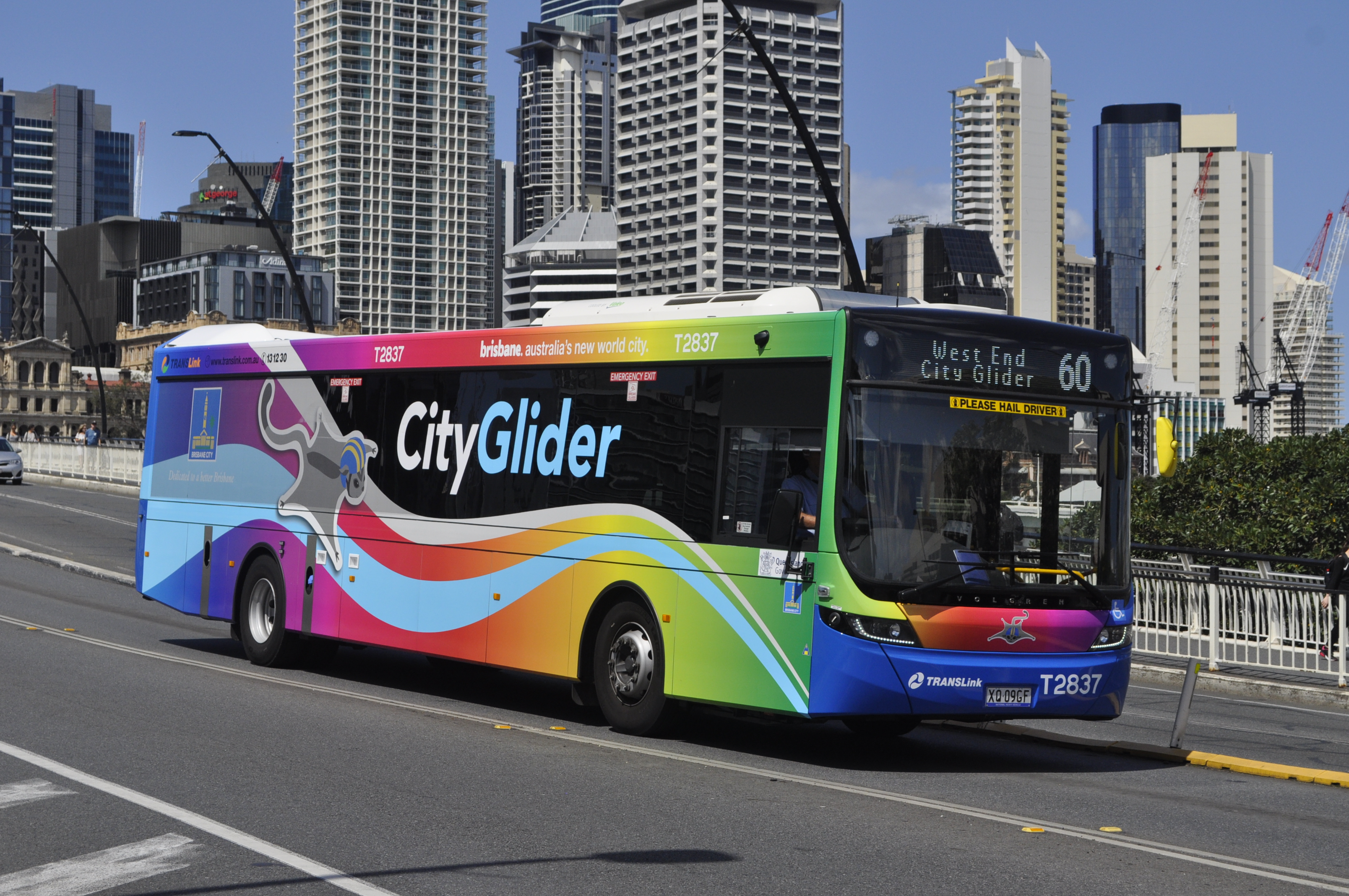 This is T2837 a few months before moving from Toowong Bus Depot to Eagle Farm Depot. This counts as Mark II of the Blue CityGlider fleet as it replaced the old MAN 18.310's running the route since it's first day of operation. This also replaced the old 'Rainbow' City Glider which was retired from CityGlider operations in 2019 then moved to BT.